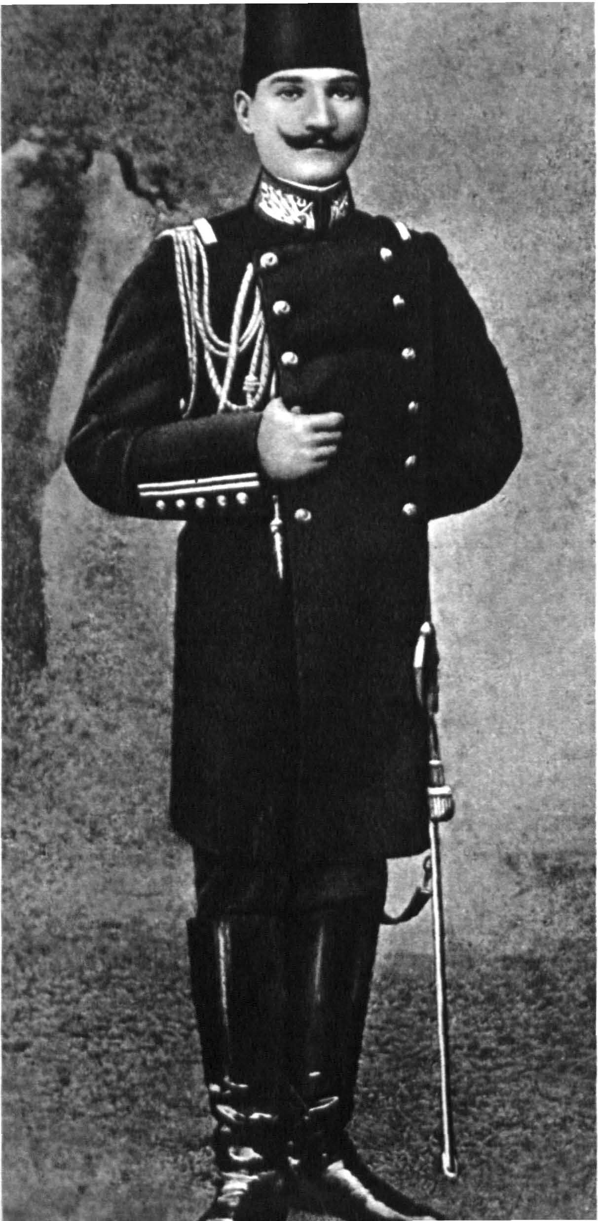 Atatürk as a alumni of Ottoman Military Academy, 11 January 1905Türkçe: Harbiye'deki Harp Akademisi'nden mezun olan Kurmay Yüzbaşı Mustafa Kemal (11 Ocak 1905)